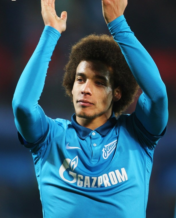 Axel Witsel